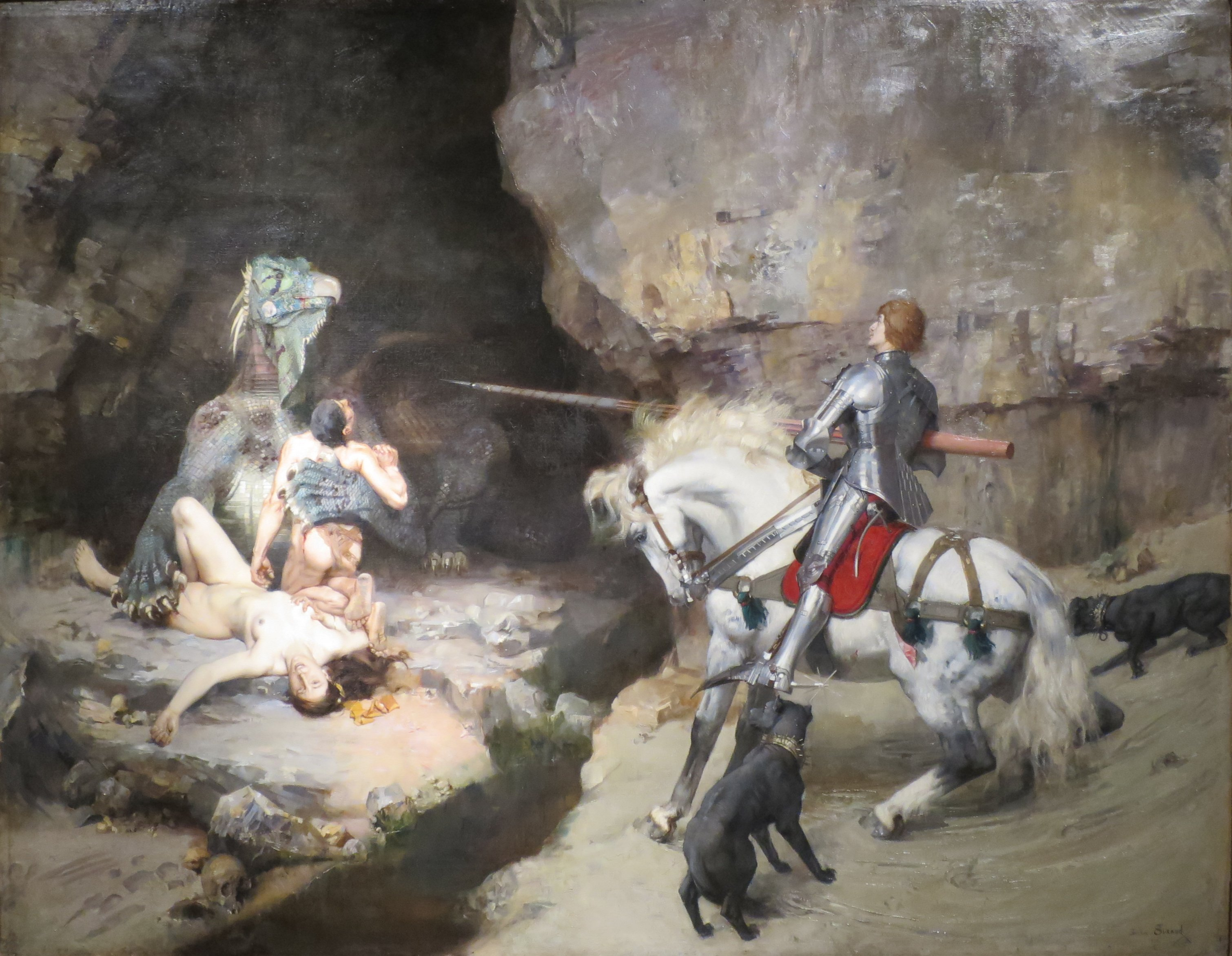 Saint George and the Monster by Gustave Surand, oil on canvas, 1888, Los Angeles County Museum of Art